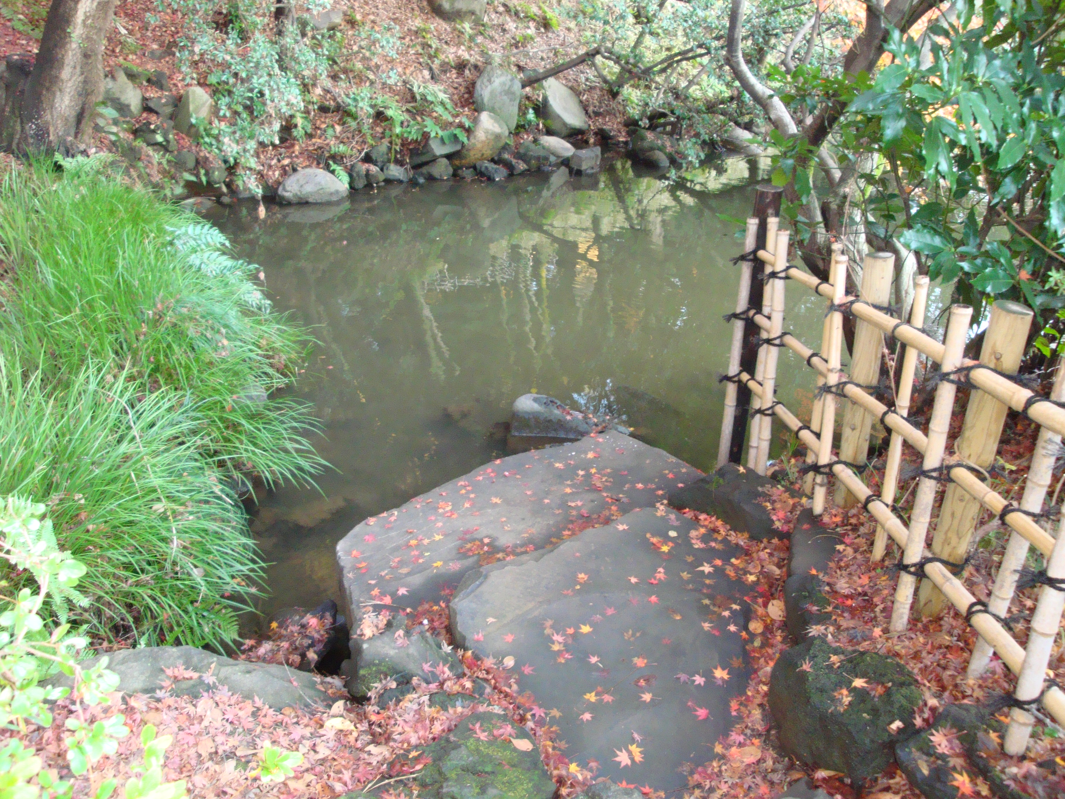 Shin-Edogawa Garden, Bunkyo, Tokyo